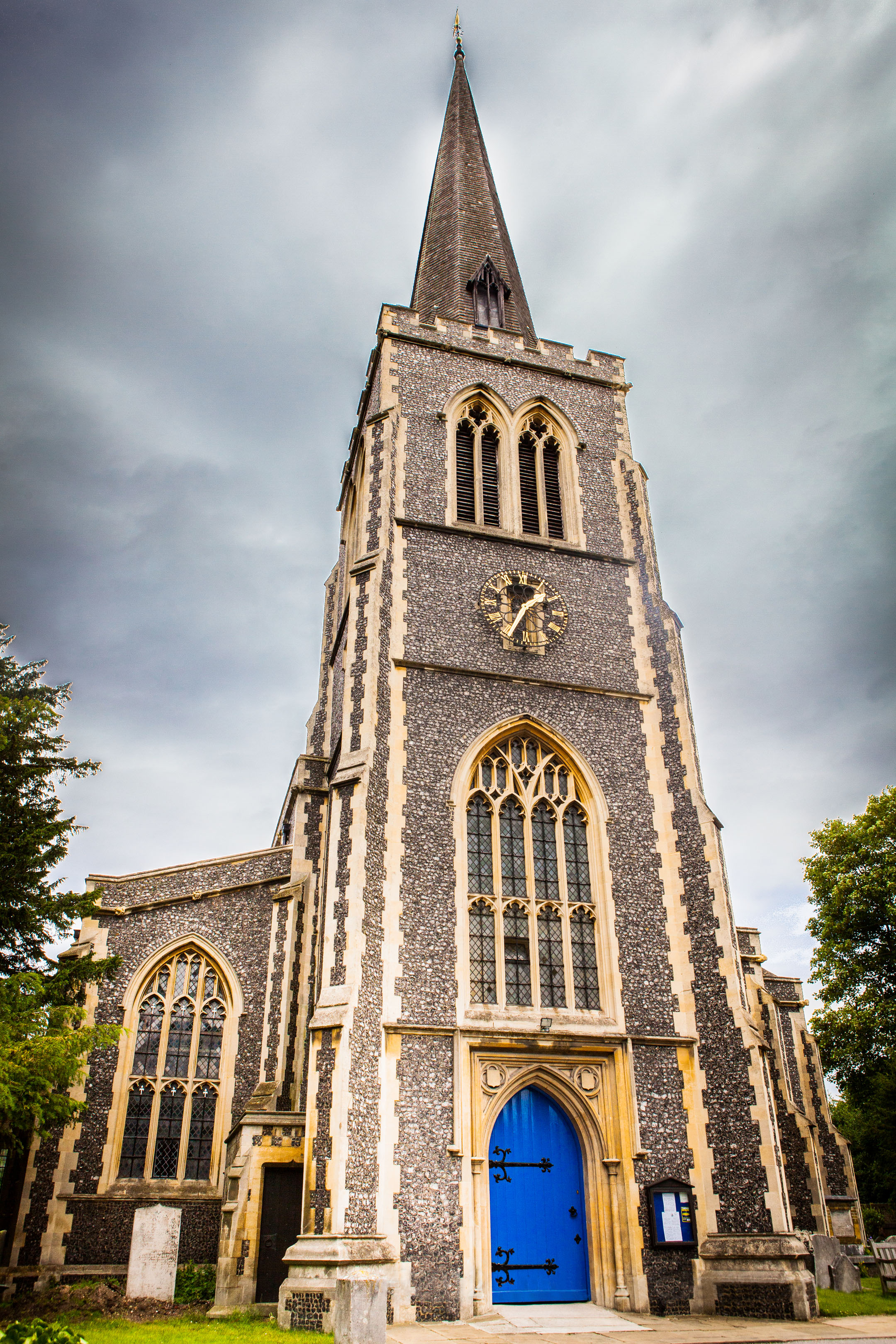 West front of St Mary's parish church, Wimbledon, London, seen from the west